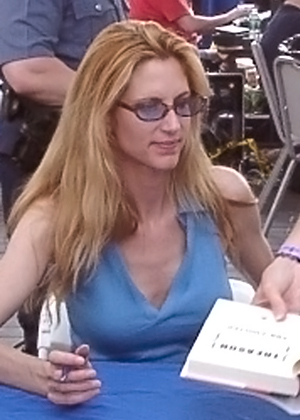 American writer Ann Coulter